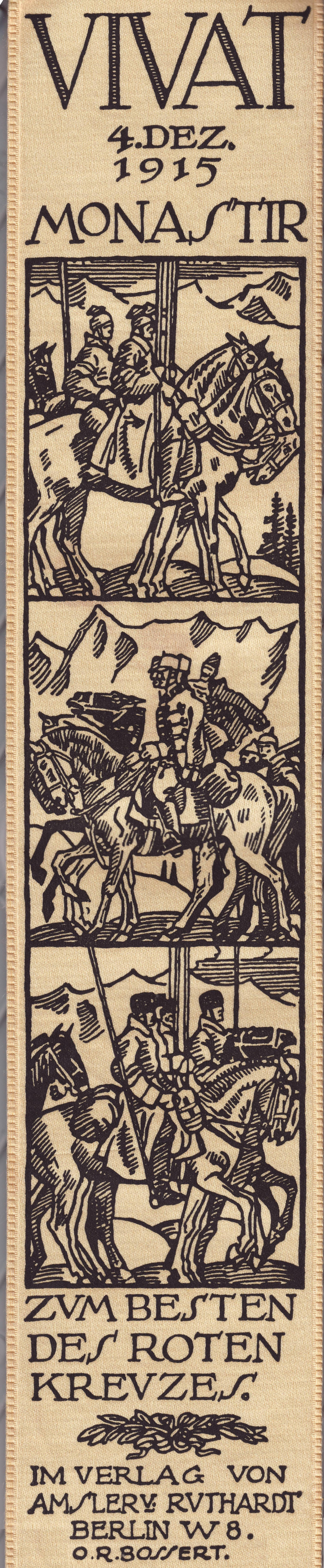 World War I Vivat ribbon with words 4 Dez. 1915 Monastir likely commemorating taking of Monastir by Bulgarian forces in 1915. Printed by Amsler & Ruthardt in Berlin for German Red Cross to raise funds for war relief.